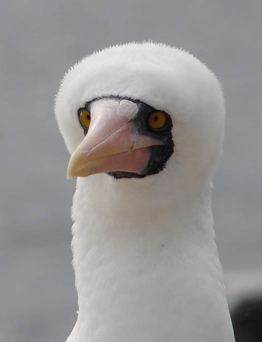 Nazca Booby taken Galapagos Islands (originally described a Masked Booby by uploader).